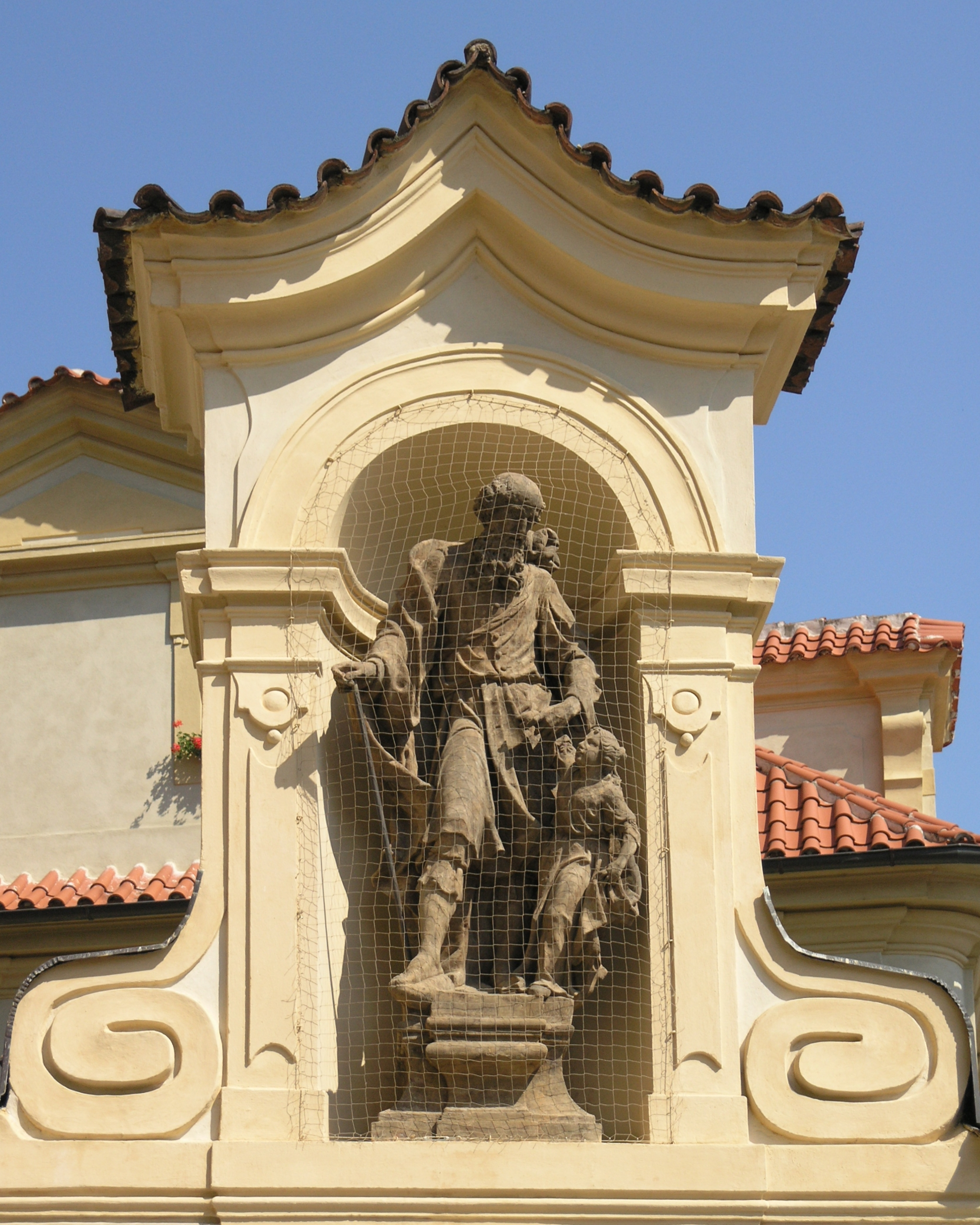 Prague, Hradčany - Military church of St. Jan Nepomuk